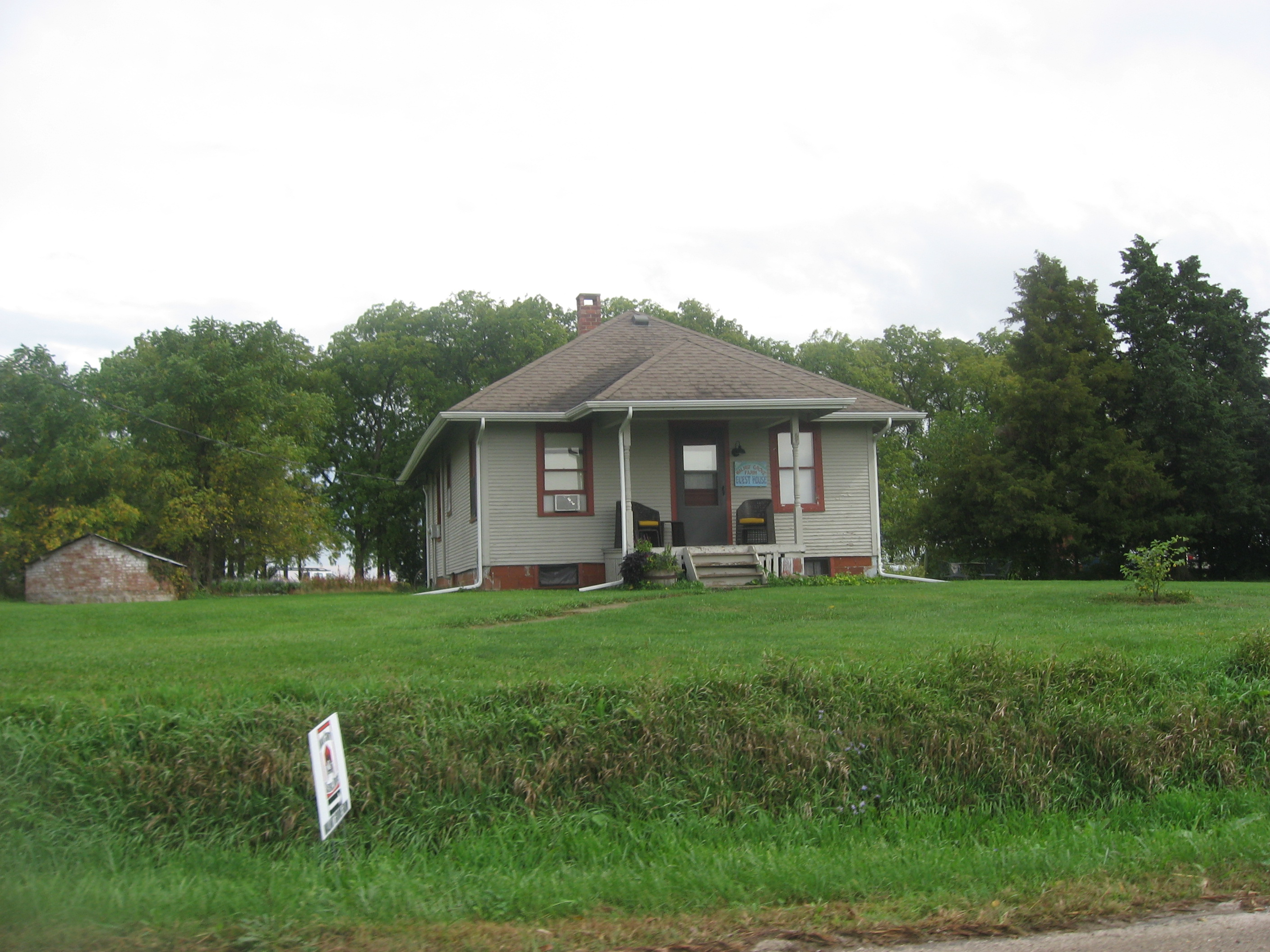 Front of the tenant house at Walnut Grove Farm, located on the eastern side of Knox Station Road north of Knoxville in Knox Township, Knox County, Illinois, United States. Built in 1900, it is listed on the National Register of Historic Places along with the rest of the farm.